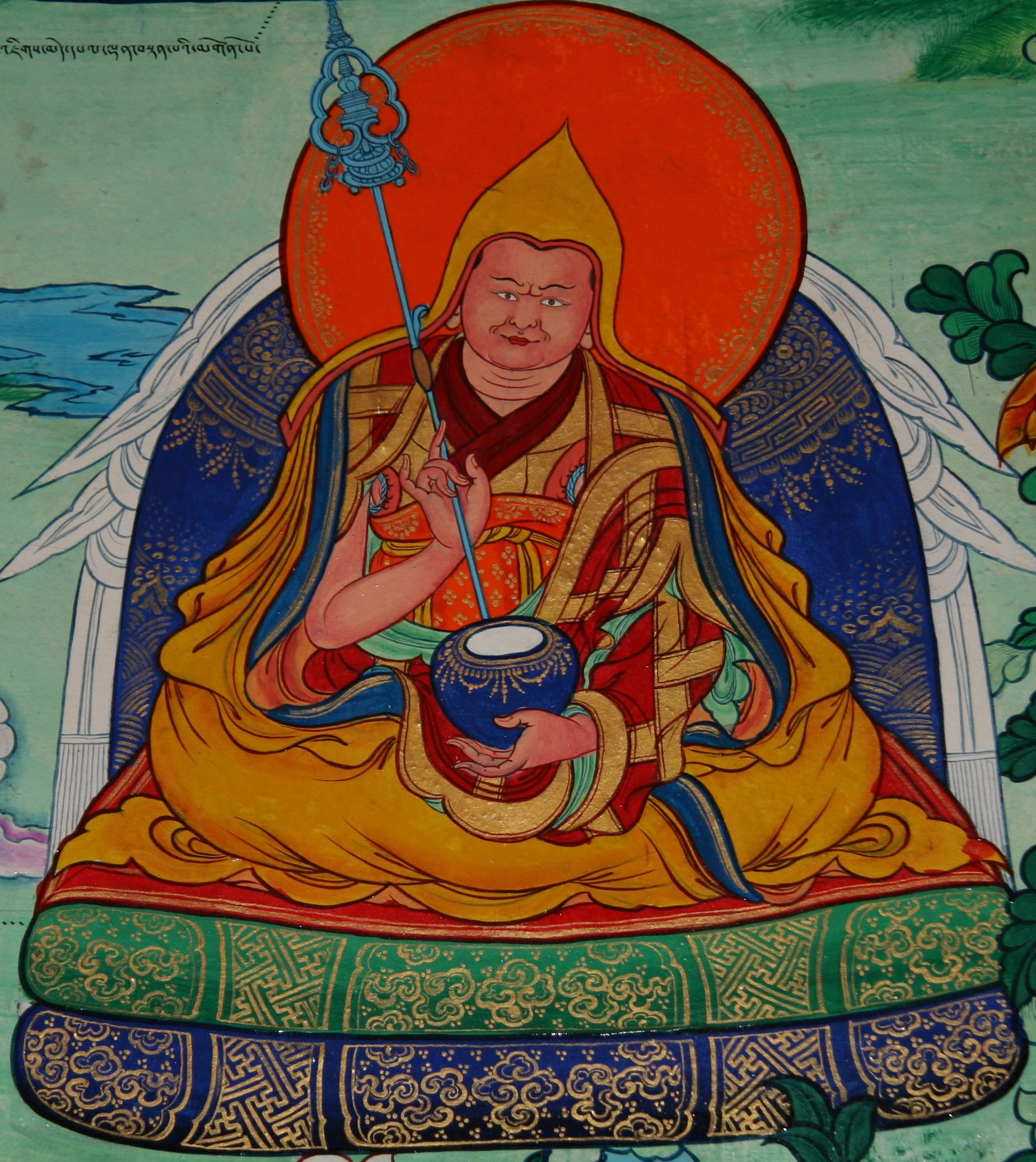 The Second Pakpa Lha, Sanggye Pel b.1507 - d.1566